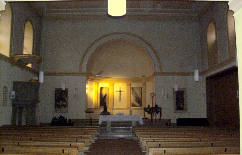 Interior of the protestant church in St. Wendel, Saarland